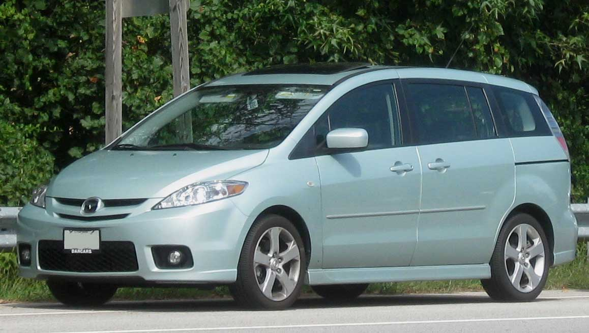 2006-2007 Mazda5 photographed in College Park, Maryland, USA.